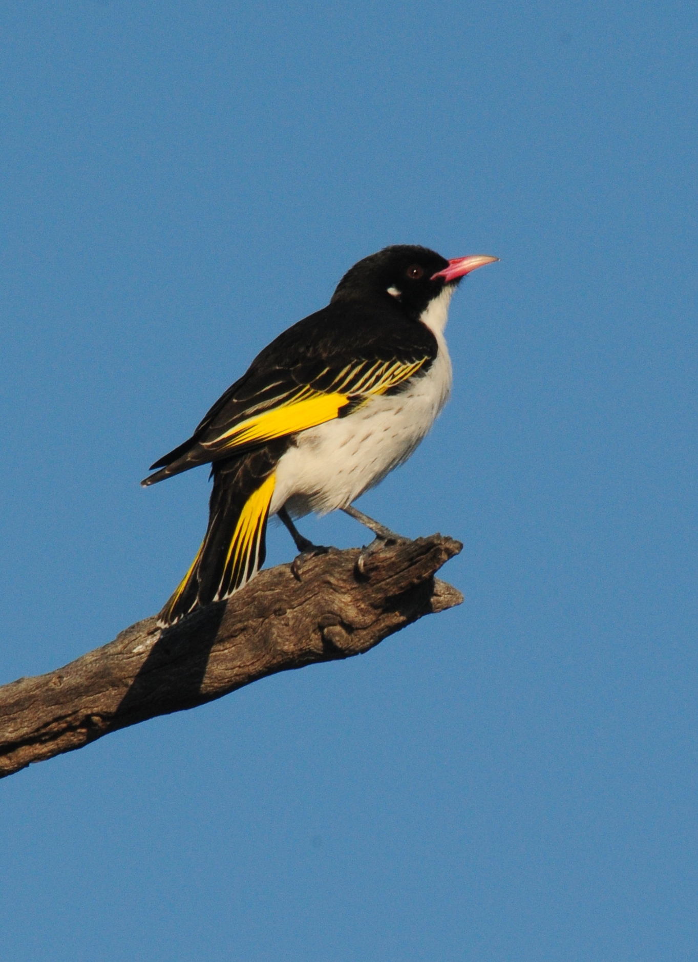 Profile and plummage of painted honeyeater.